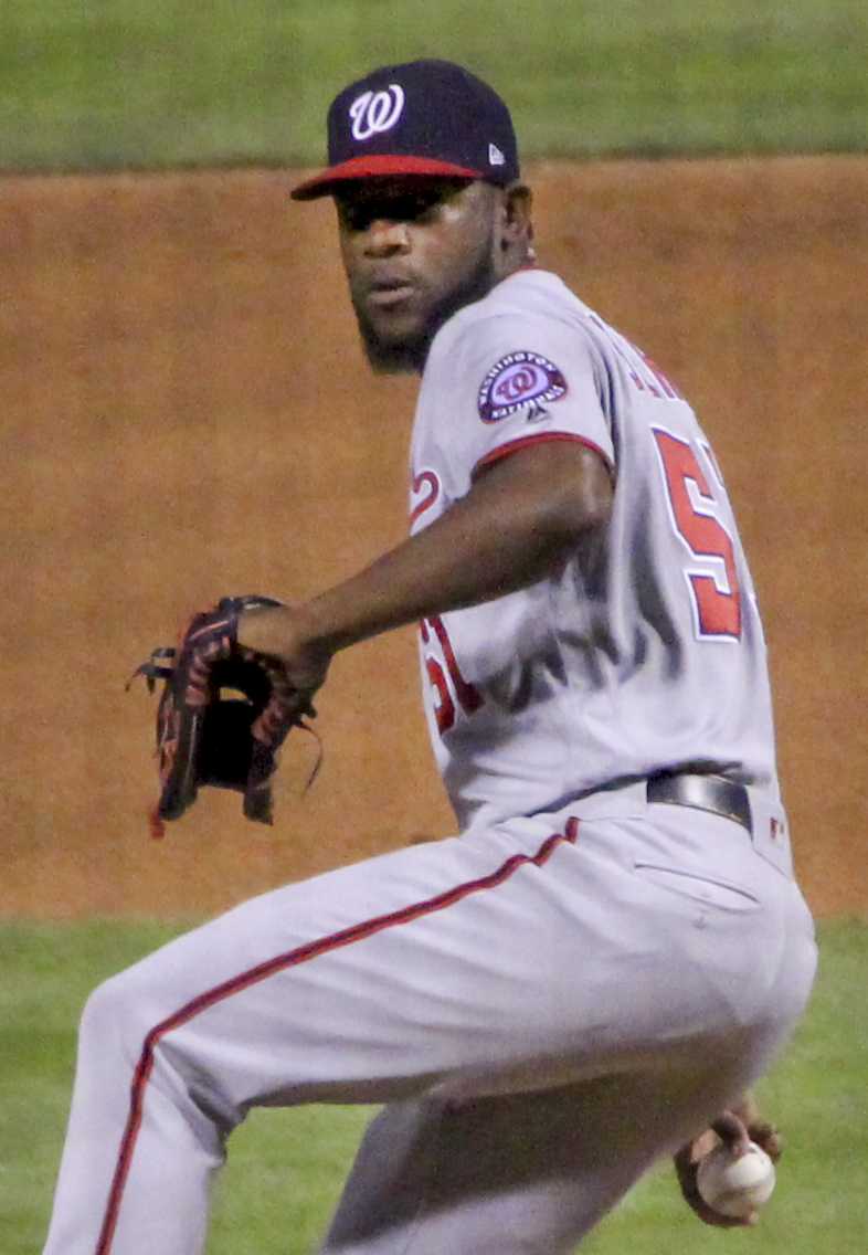 Wander Suero of the Washington Nationals, 2018